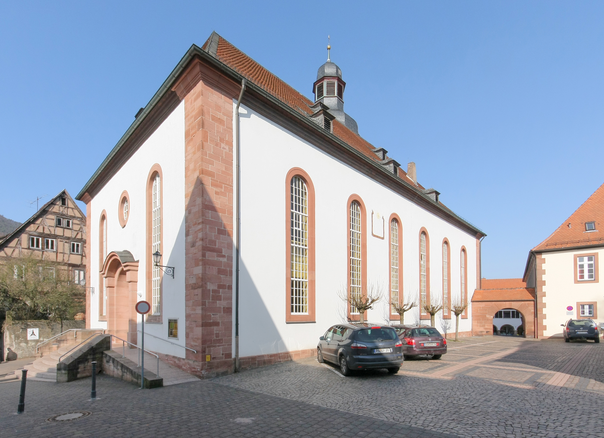 Protestant church of Annweiler am Trifels as seen from the Kirchplatz NOTE: This image is a panorama consisting of 2 frames that were merged in Hugin. As a result, this image necessarily underwent some form of digital manipulation. These manipulations may include blending, blurring, cloning, and color and perspective adjustments. As a result of these adjustments, the image content may be slightly different than reality at the points where multiple images were combined. This manipulation is often required due to lens, perspective, and parallax distortions.